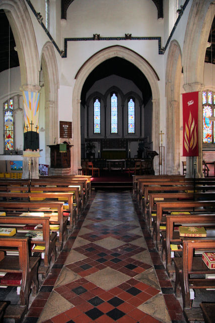 Church interior, Lawshall The tiled nave of All Saints' Church, Lawshall.